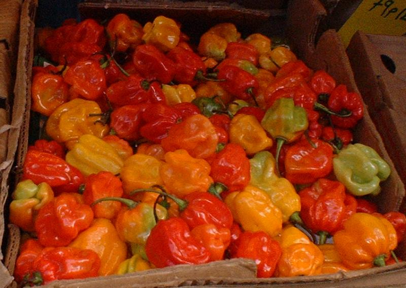 Hot peppers (Scotch bonnet peppers) taken in Brixton market by C Ford, March 04.